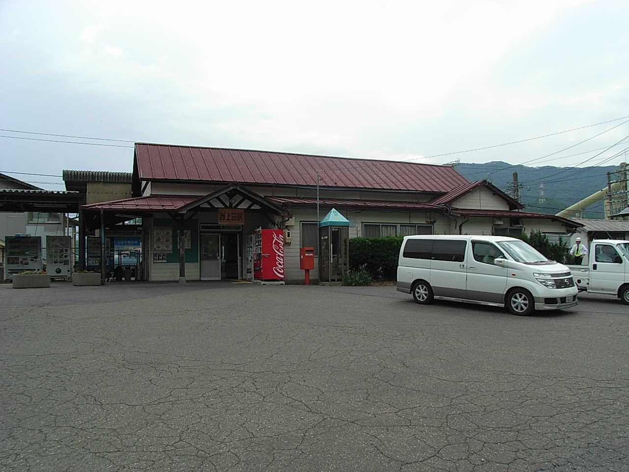 Nishi-Ueda Station of Shinano Railway (Shimoshiojiri 343, Ueda, Nagano, Japan)